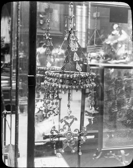 Votive crown of Suithila, Madrid (stolen in 1921). Images of Spanish architecture from a unique set of pre-World War I lantern slides. These are all public domain.